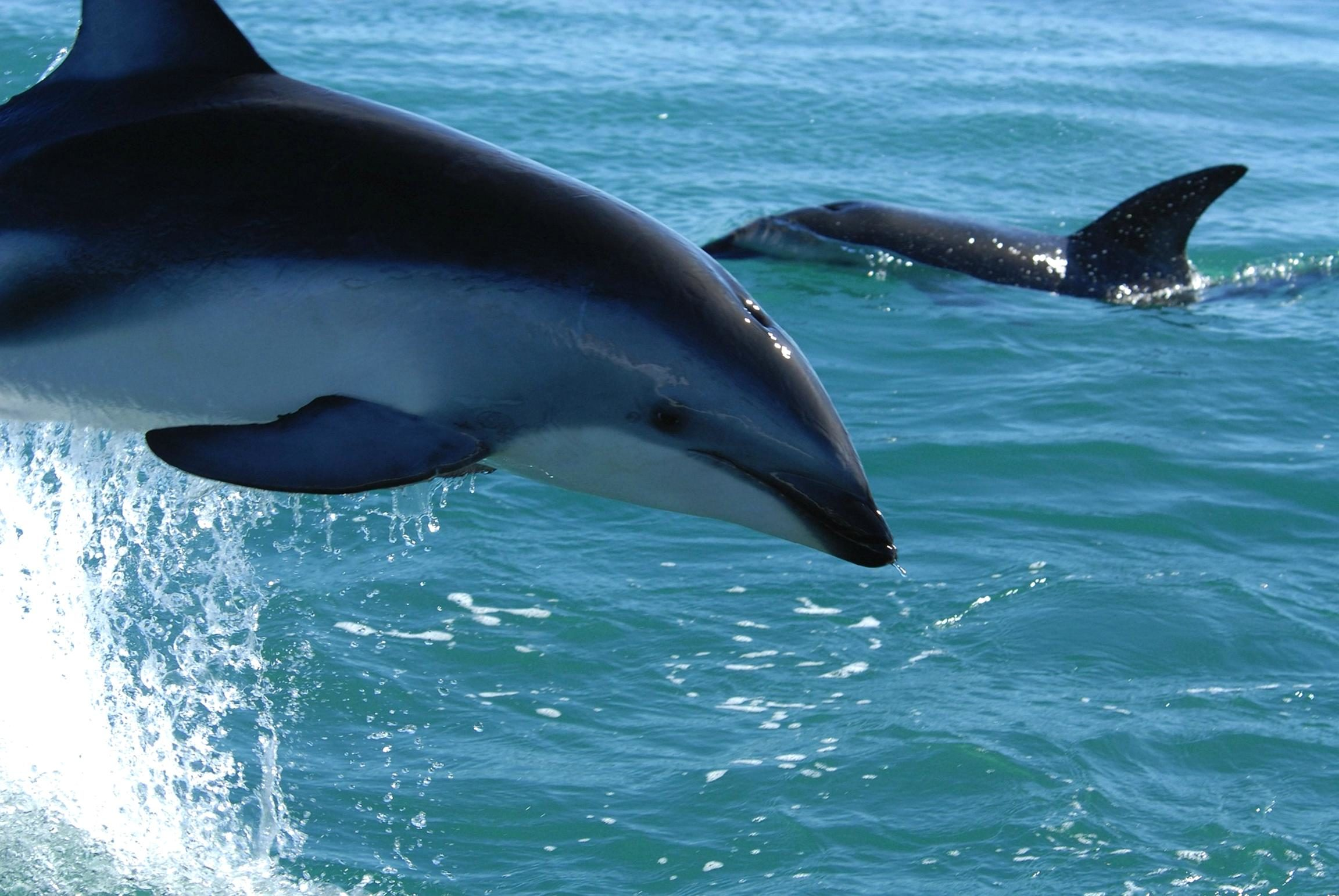 White sided Dolphins